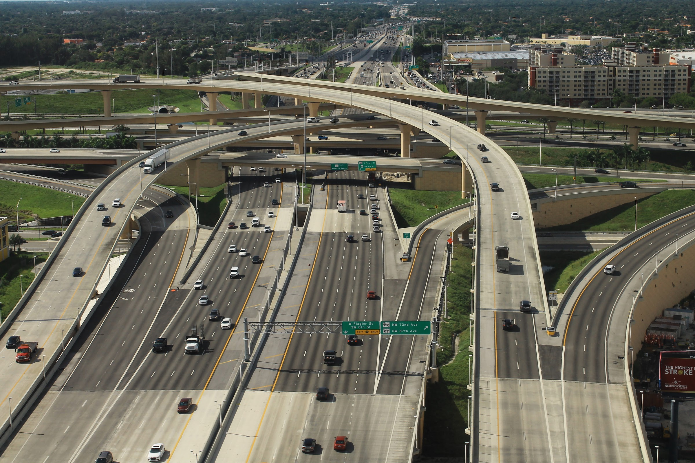 Looking to the south before landing at Miami International Airport, the Palmetto Expressway (SR 826) ducks under the Dolphin Expressway (SR 836) near Miami Lakes, Florida.